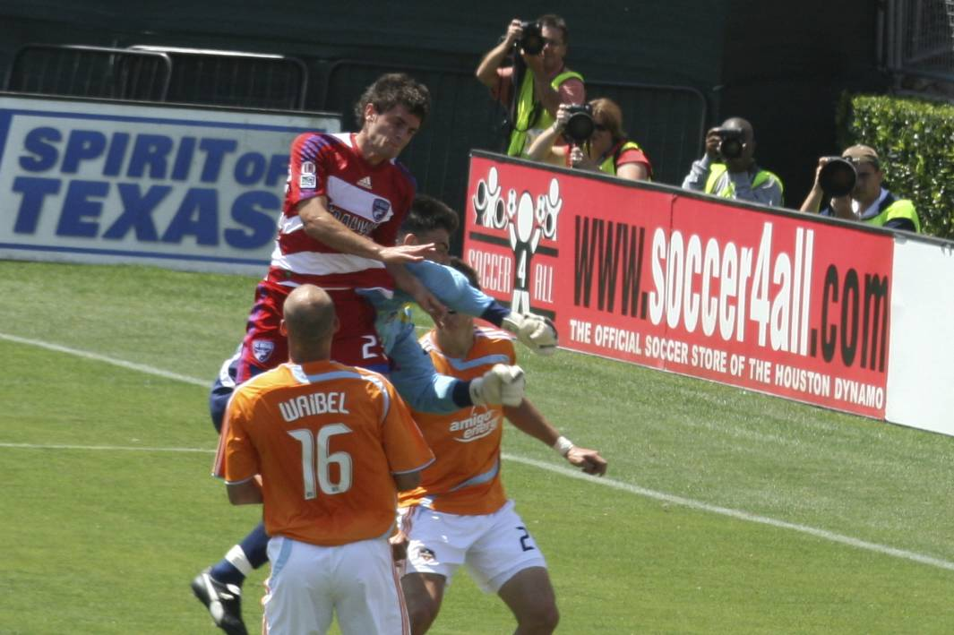 This is the injury that took out our starting goalie.